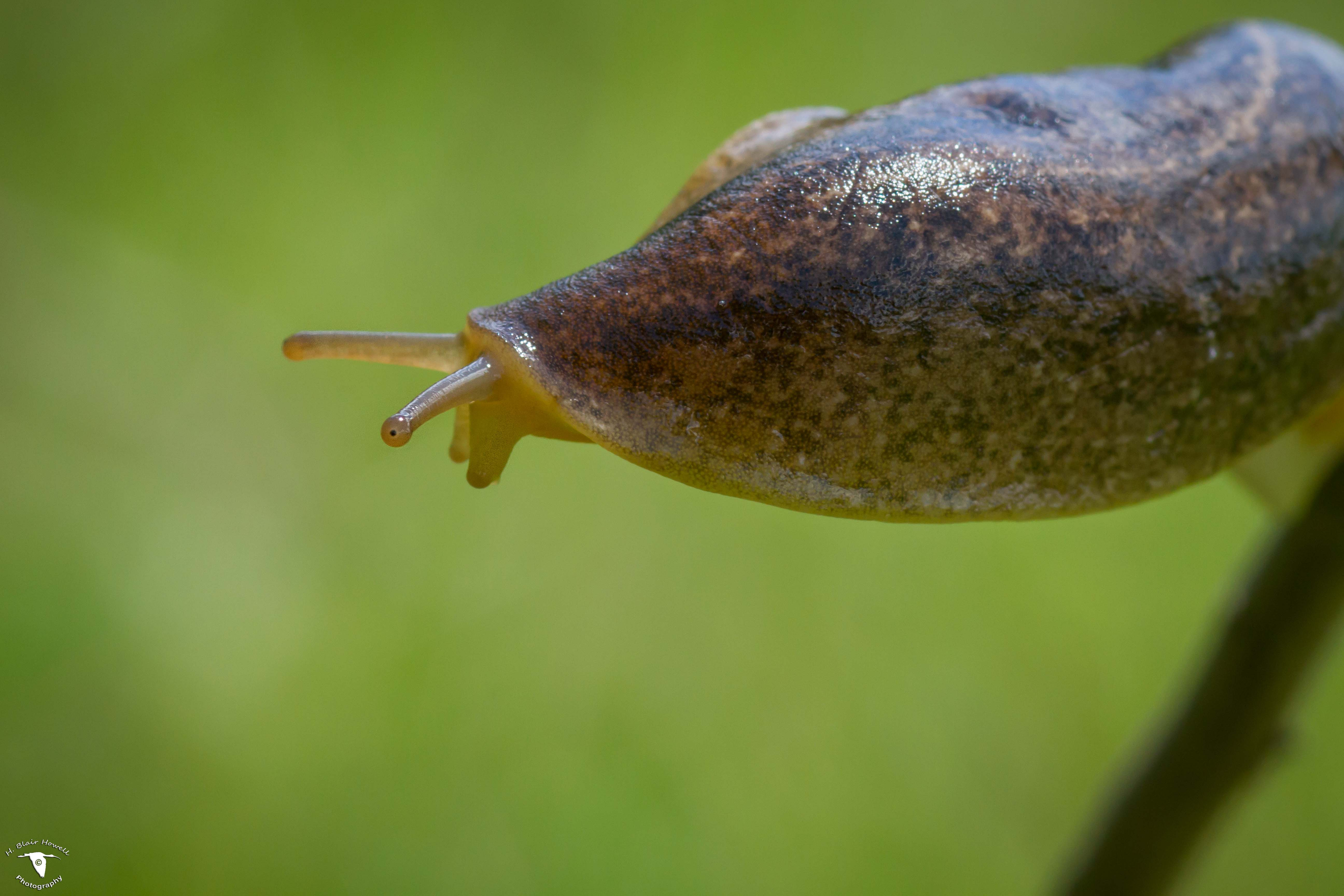 A Large Leidyula floridana in central Florida. Photo by H. Blair Howell.